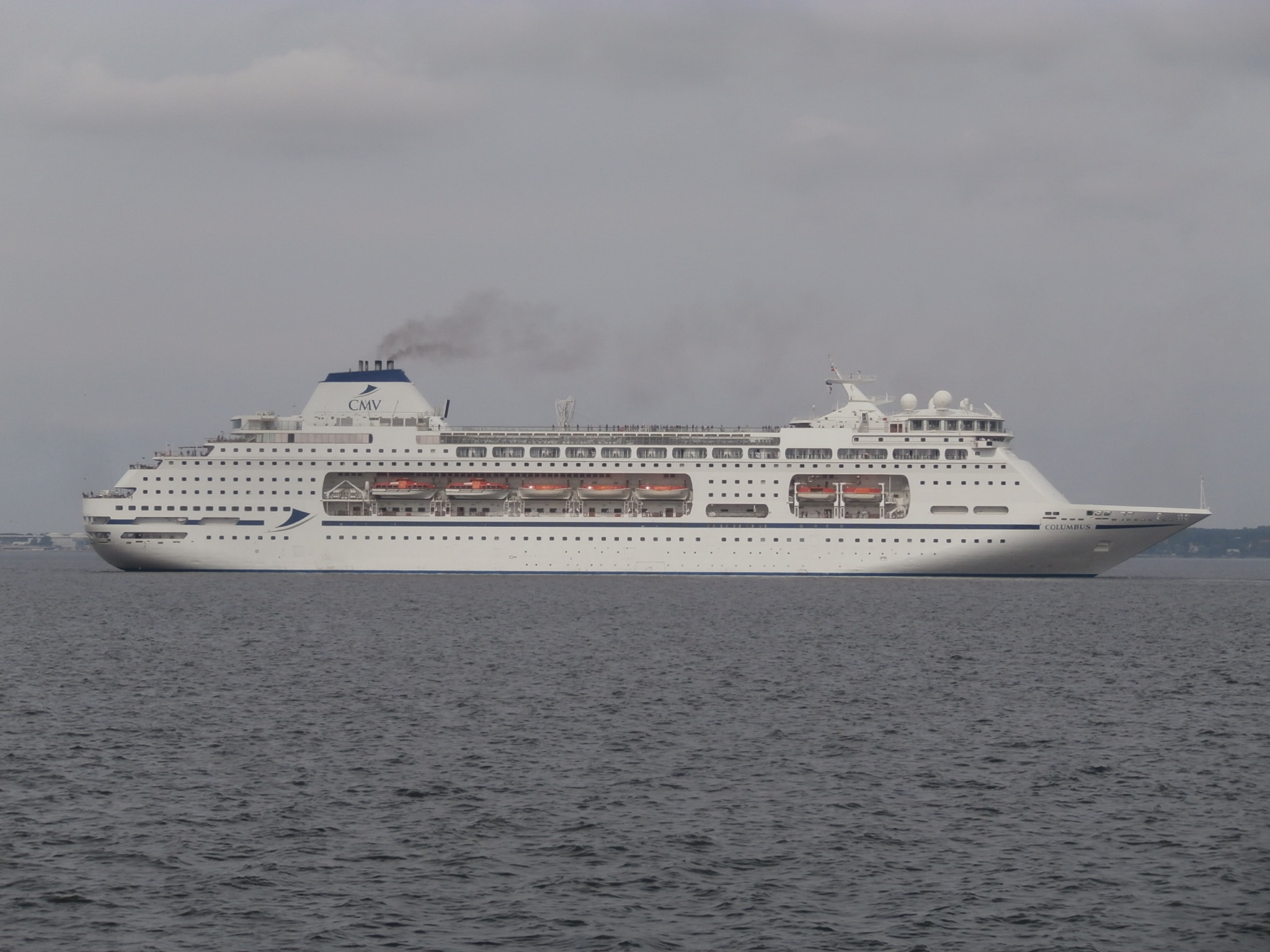 Columbus turning to port side, Tallinn Bay, Tallinn 31 July 2017